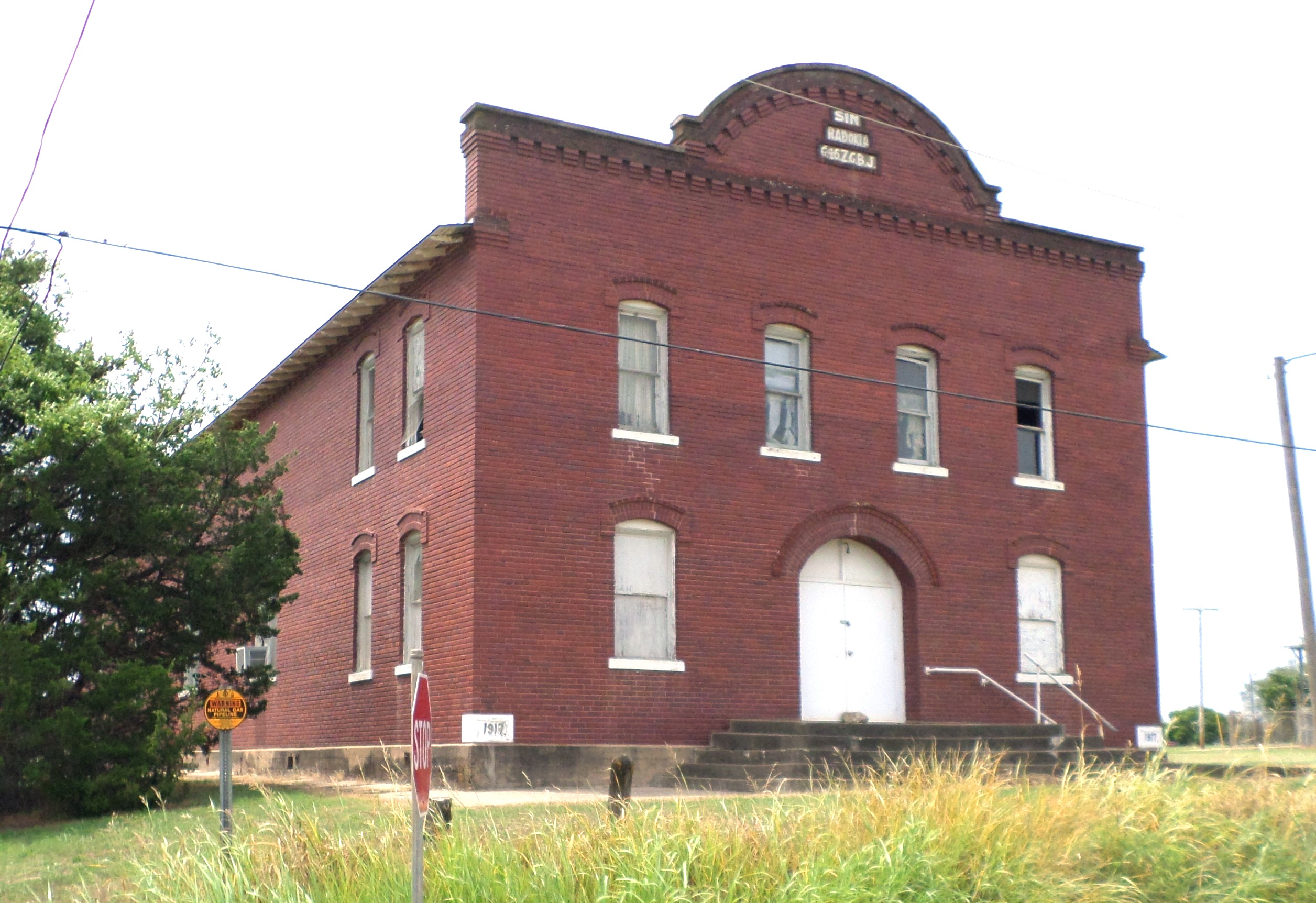 Bohemian Hall, also known as Zapadni Ceska Bratrska Jednota Lodge #46, located at 1st St. and Barta St., Prague, OK. The building is listed on the National Register of Historic Places.